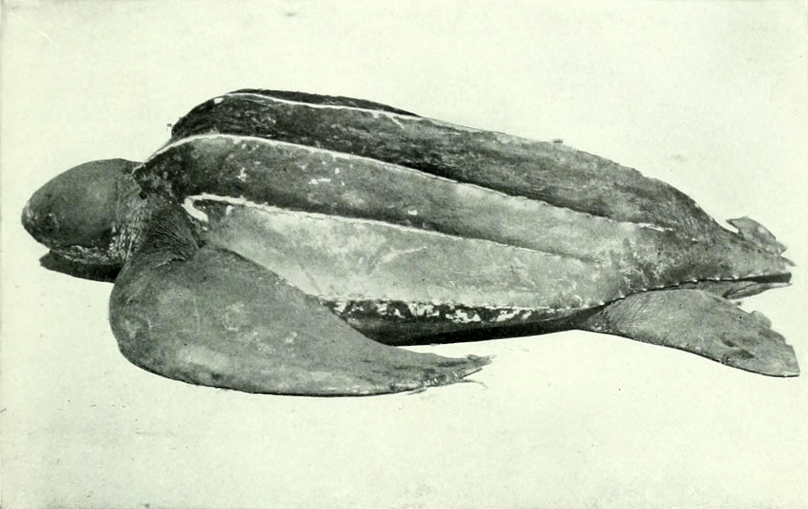 Dermochelys coriacea